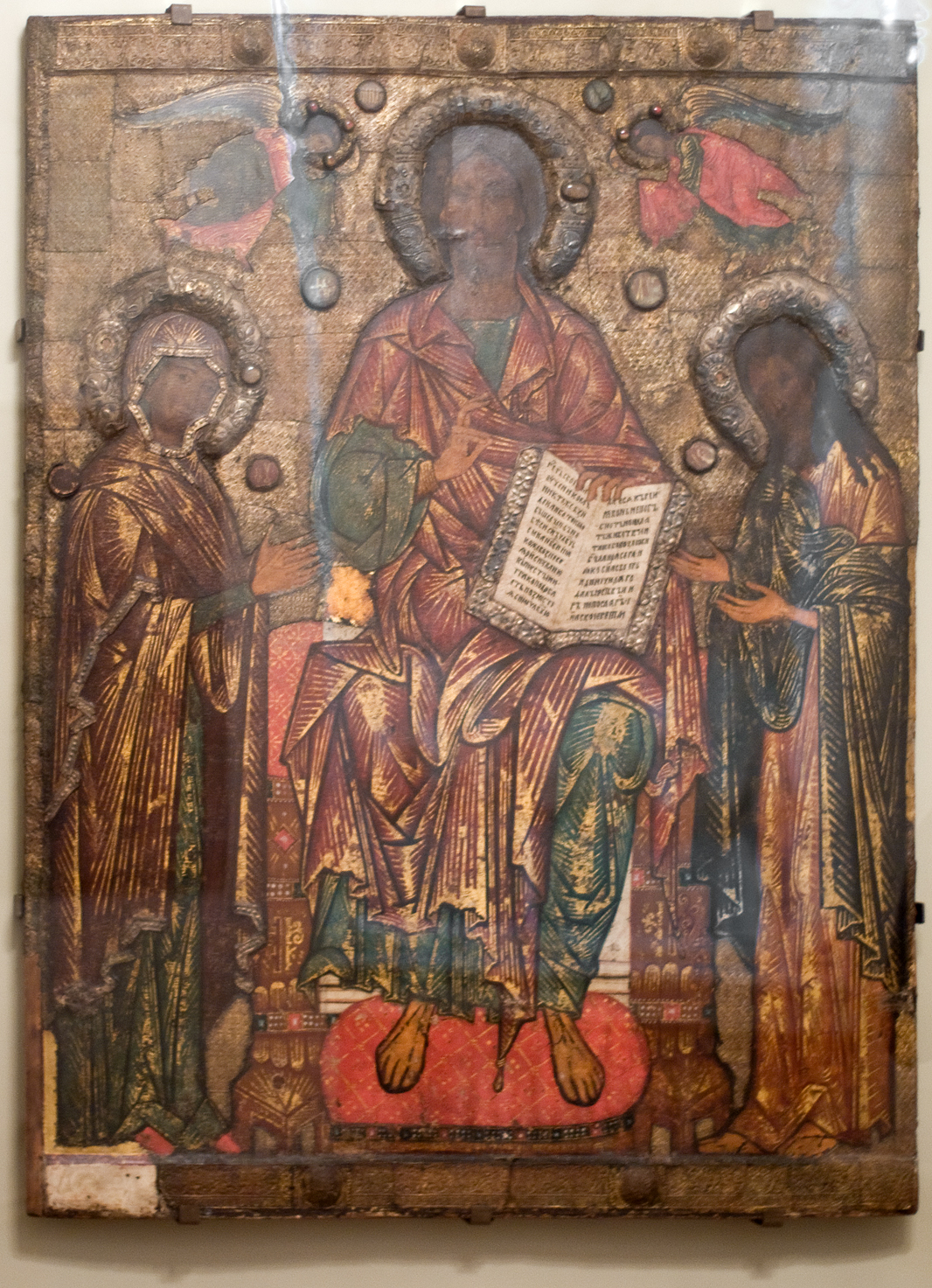 DEISIS. First half of the 14th Century. Pskov. From St. Nicholas' church, Pskov, Russian Museum